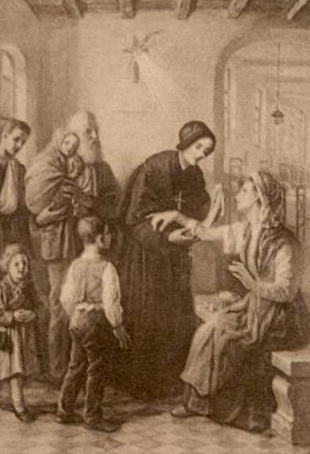 Vincenza Gerosa (1784-1847), Italian saint who, together with Bartolomea Capitanio, founded the Sisters of Charity of Lovere